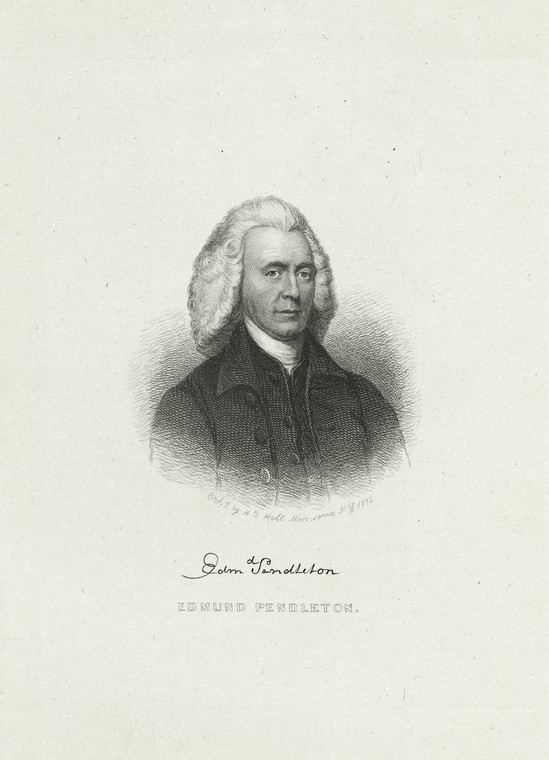 Lithograph of Virginia statesman Edmund Pendleton by Henry Bryan Hall. Image courtesy of the New York Public Library Digital Collection.